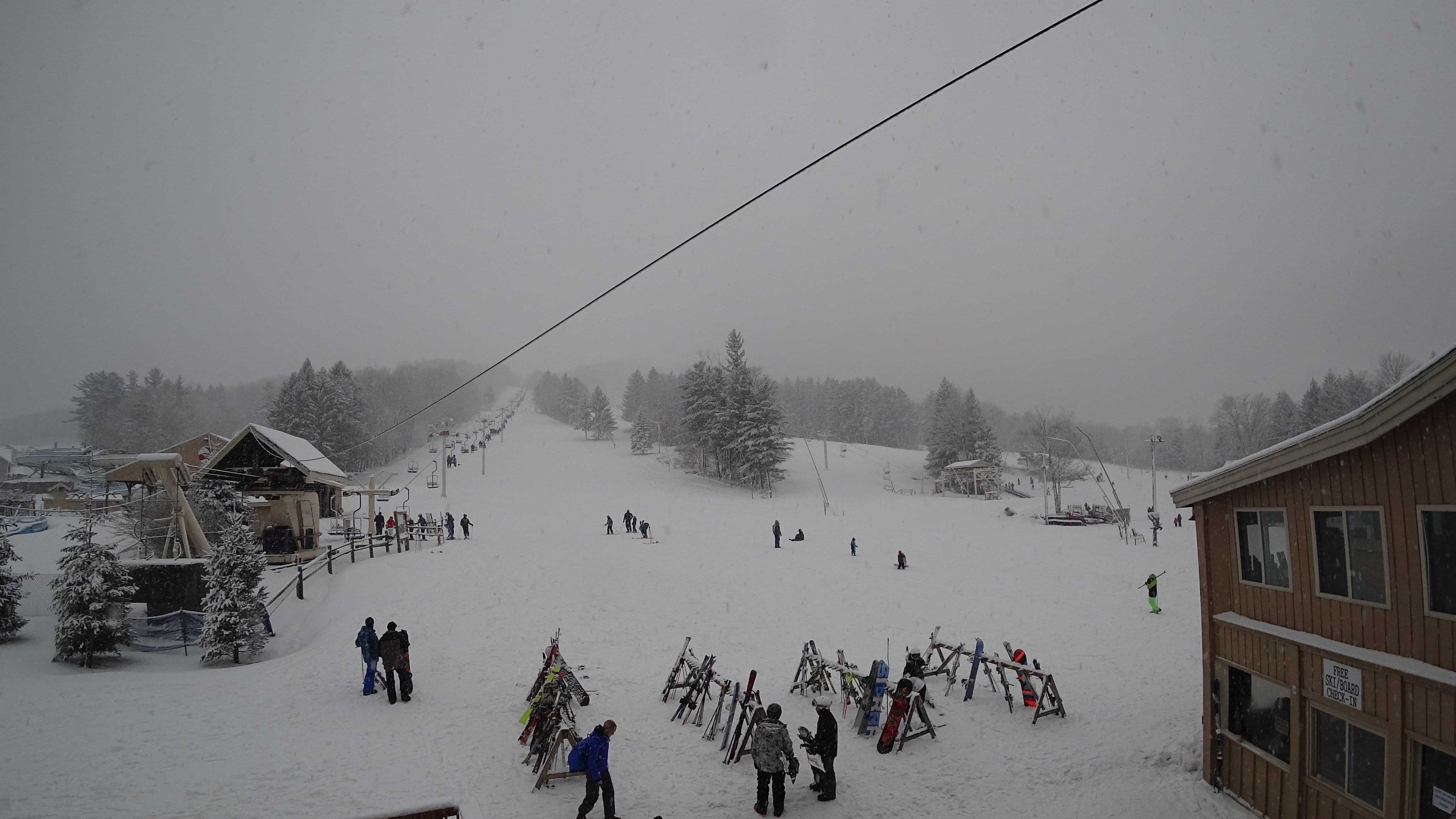 Bousquet Ski Area in Pittsfield, MA - Winter 2017